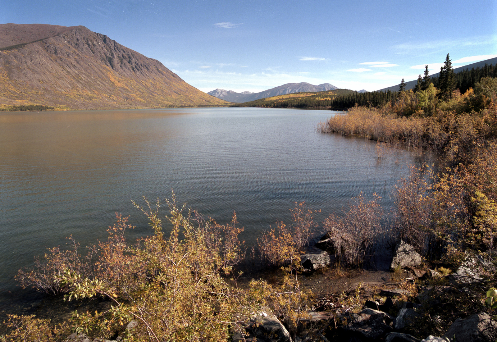 Nares Lake near Carcoss, Yukon